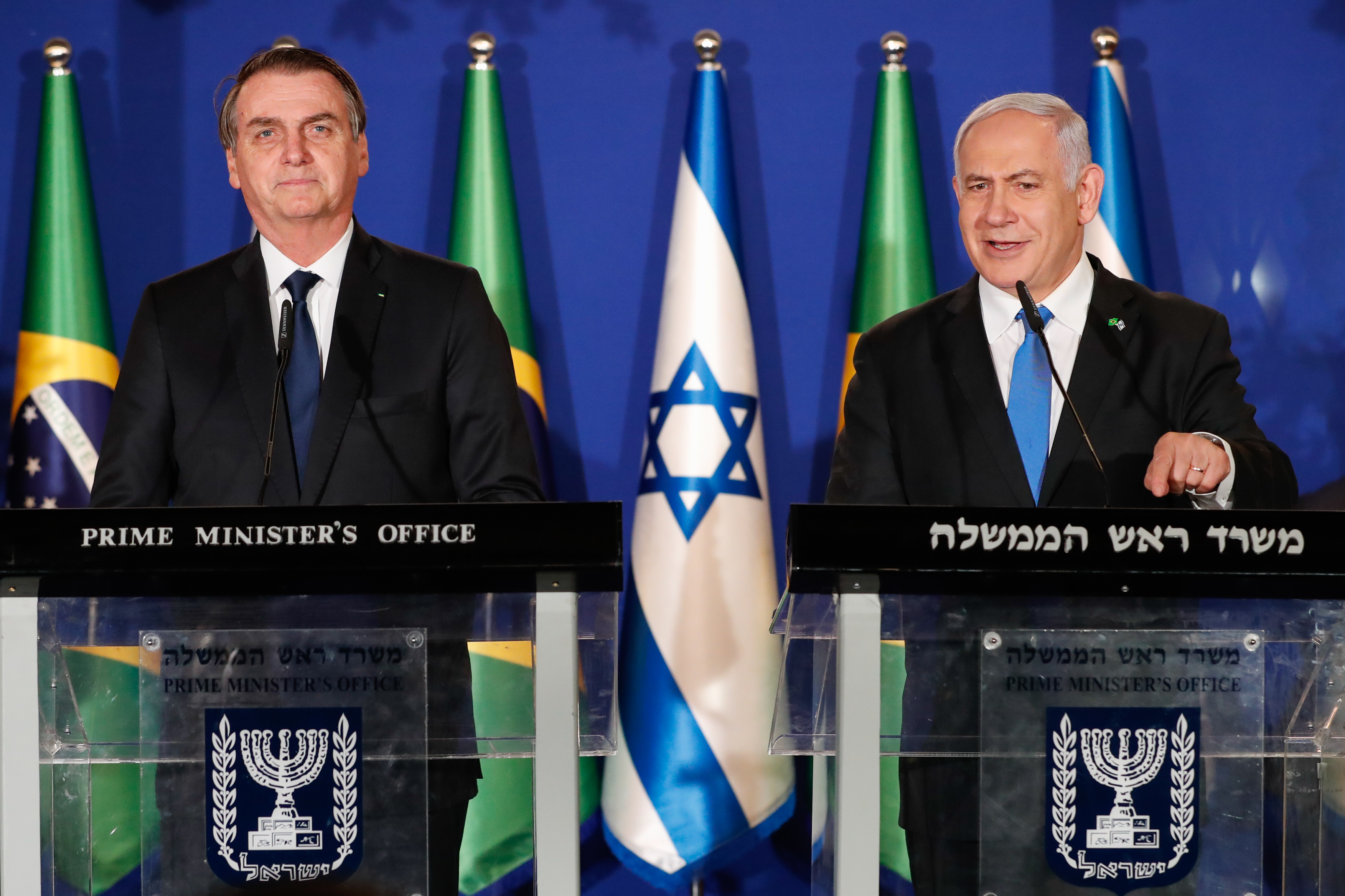 Jair Bolsonaro visit to Israel, dinner hosted by Benyamin Netanyahu, March 31, 2019